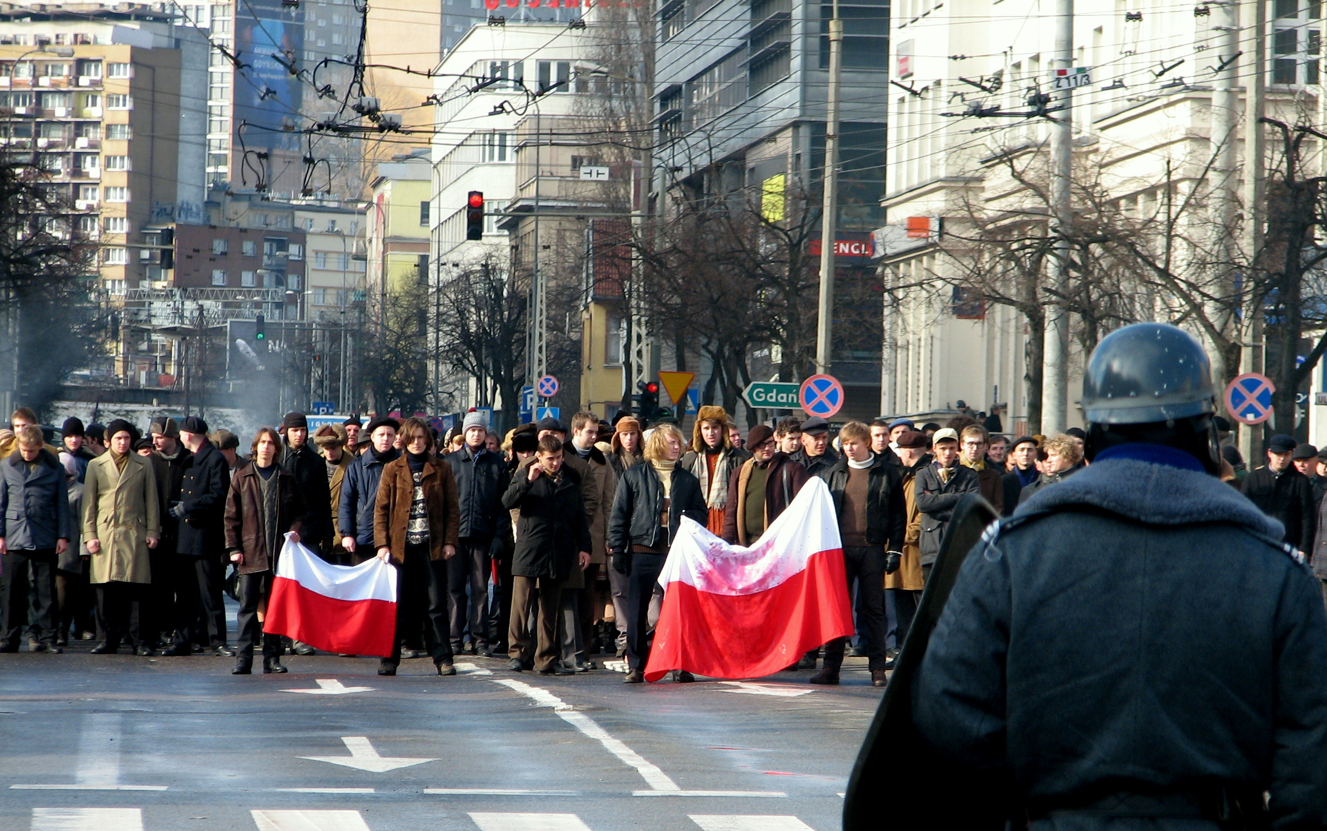 Filming of "Black Thursday" at the intersection of Świętojańska Street, Gdynia and 10 Lutego Street in Gdynia. People on this picture are actors, background actors, other workers of film crew or workers of subcontractors. "Black Thursday" is a film about Polish 1970 protests.